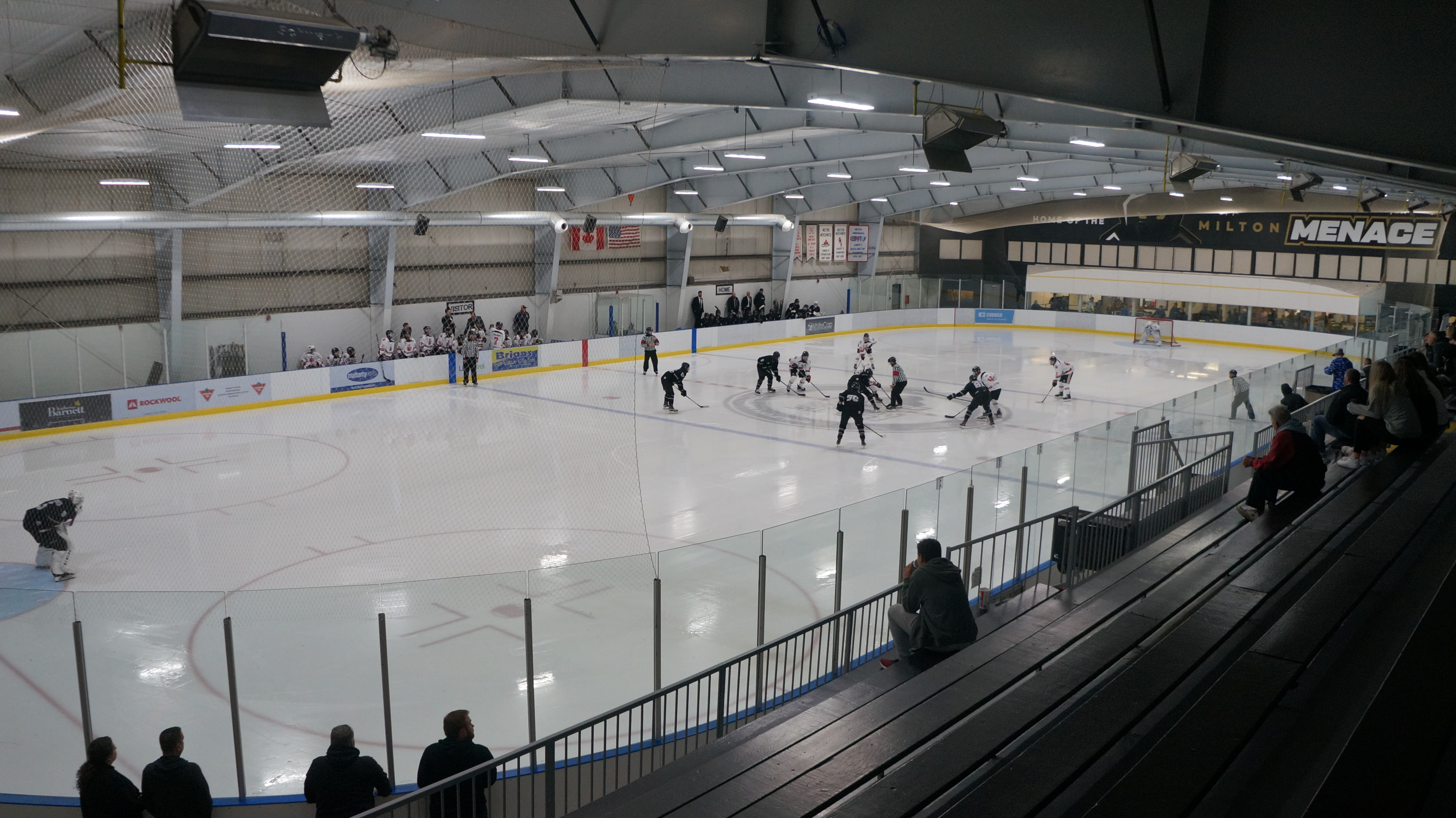 The Milton Menace hosting the Brantford 99ers at the Milton Memorial Arena in Milton , Ontario on October 11, 2019.